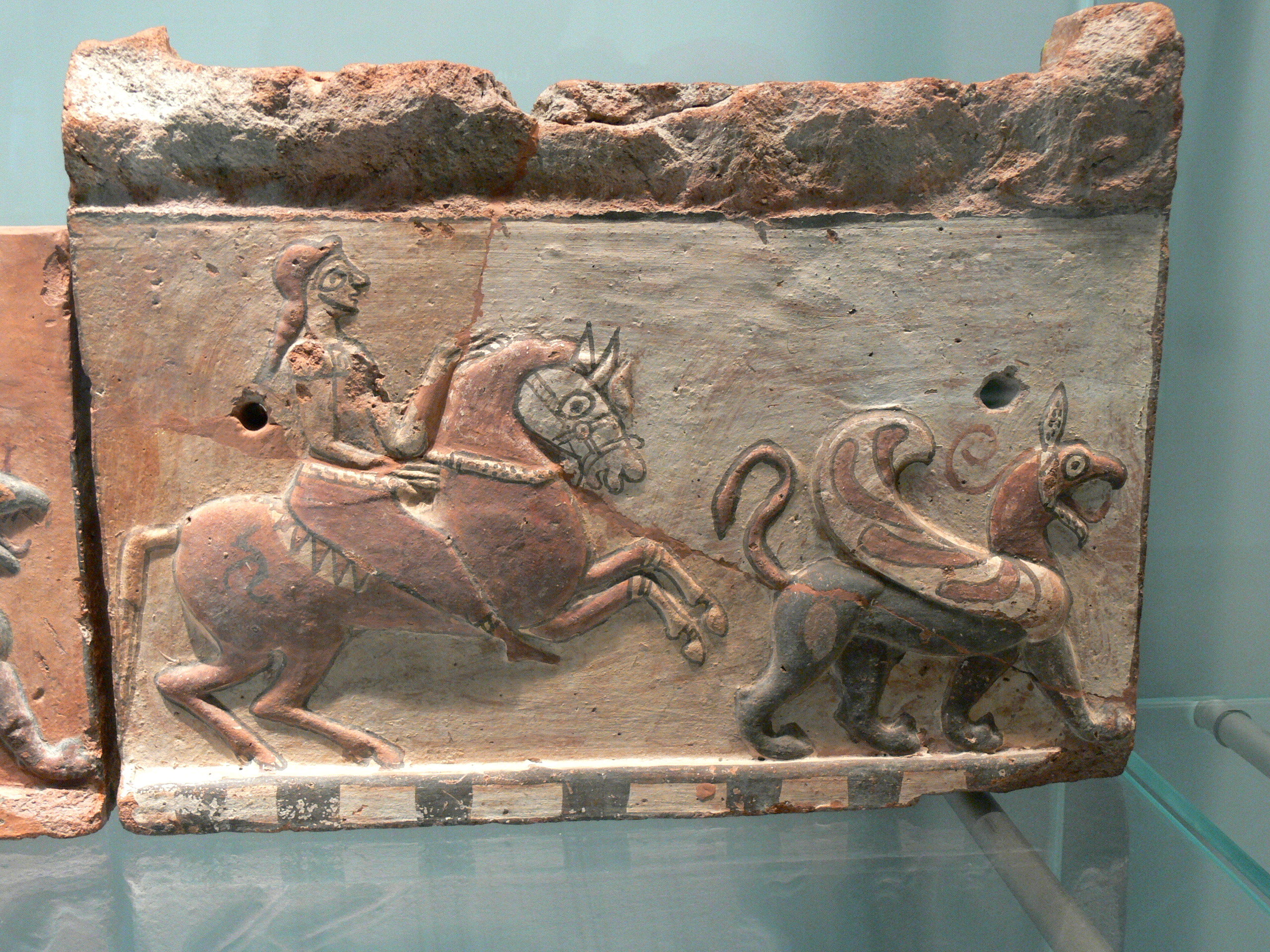 Ny Carlsberg Glyptothek, Copenhagen. Archaic Greek relief: Horse rider and griffin.